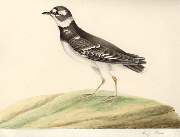 Mary Battersby Ring Plover